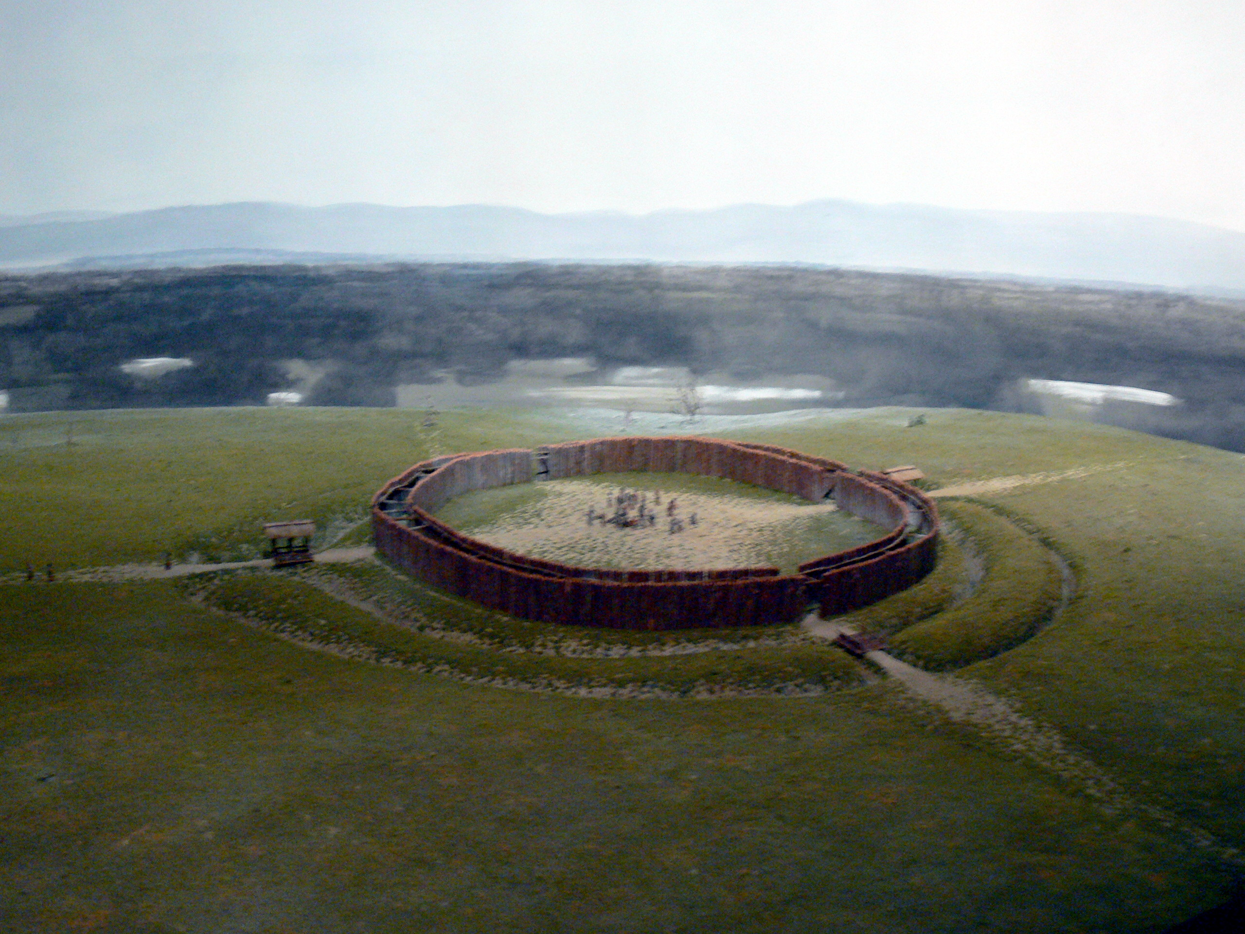 Museum Quintana. Neolithic wooden circular ditch (4840-4590 BC) in Künzing-Unternberg (reconstruction)